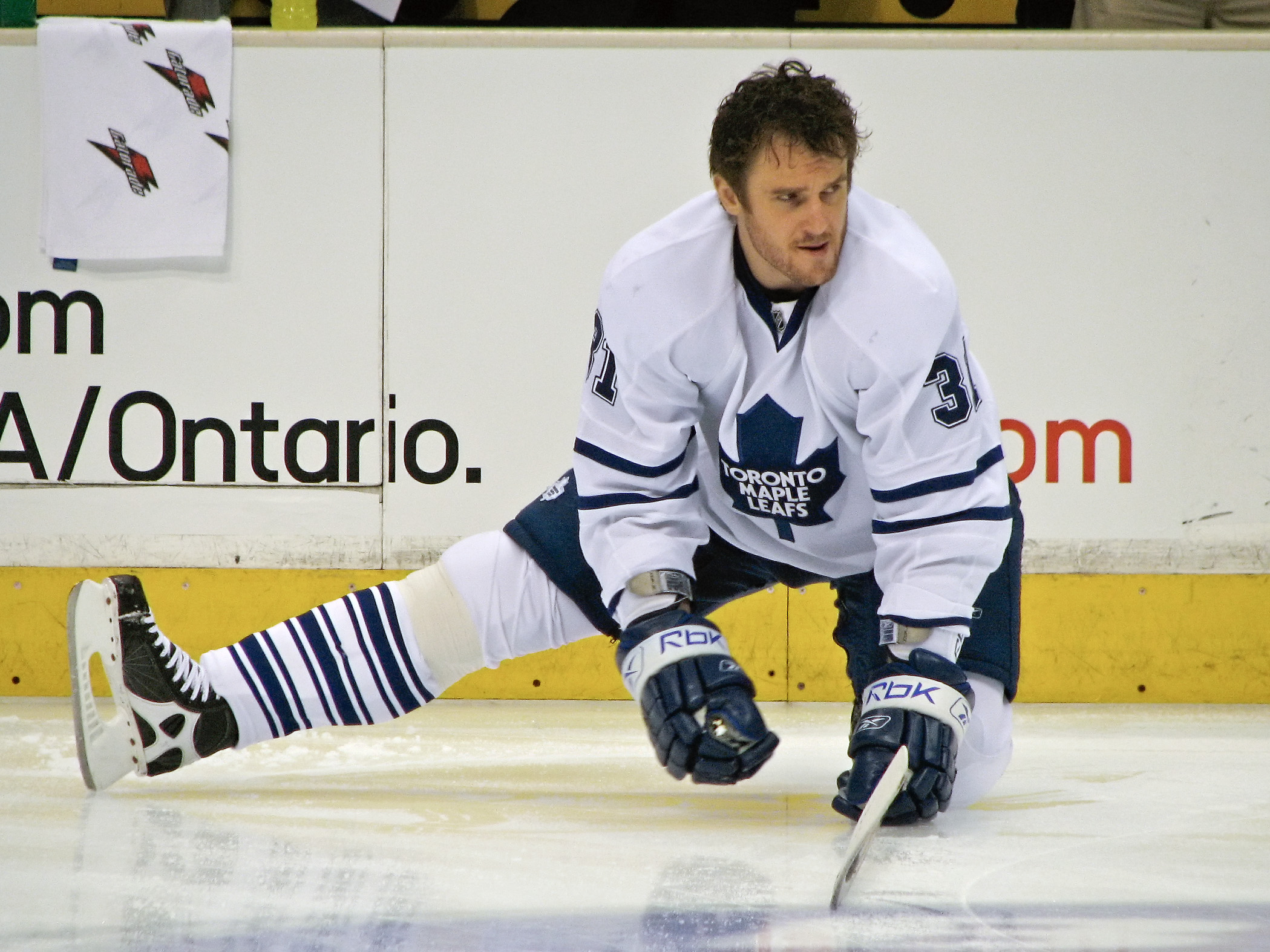 Pavel Kubina in a January 10, 2008 game for the Toronto Maple Leafs.